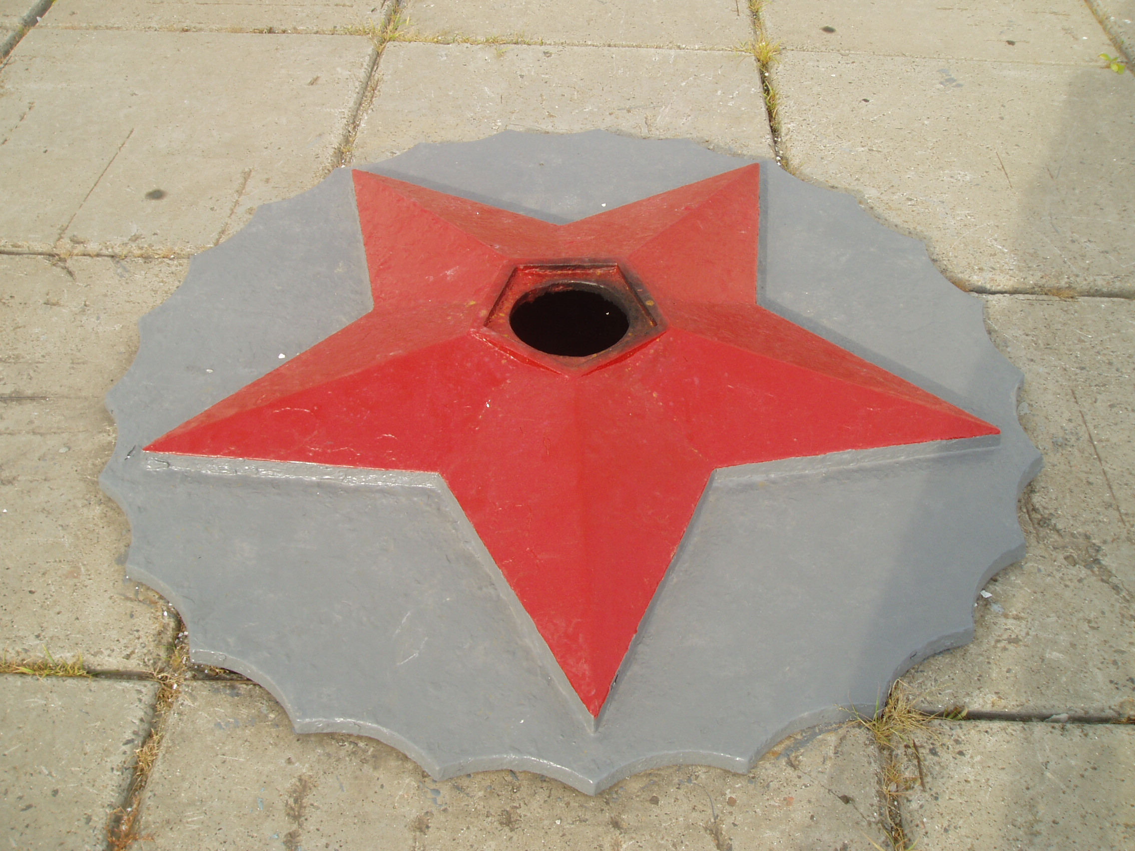 The fire has gone out, and it's now in use as a trash can. In Ribniţa, Transnistria, Moldova. See where this picture was taken. [?]